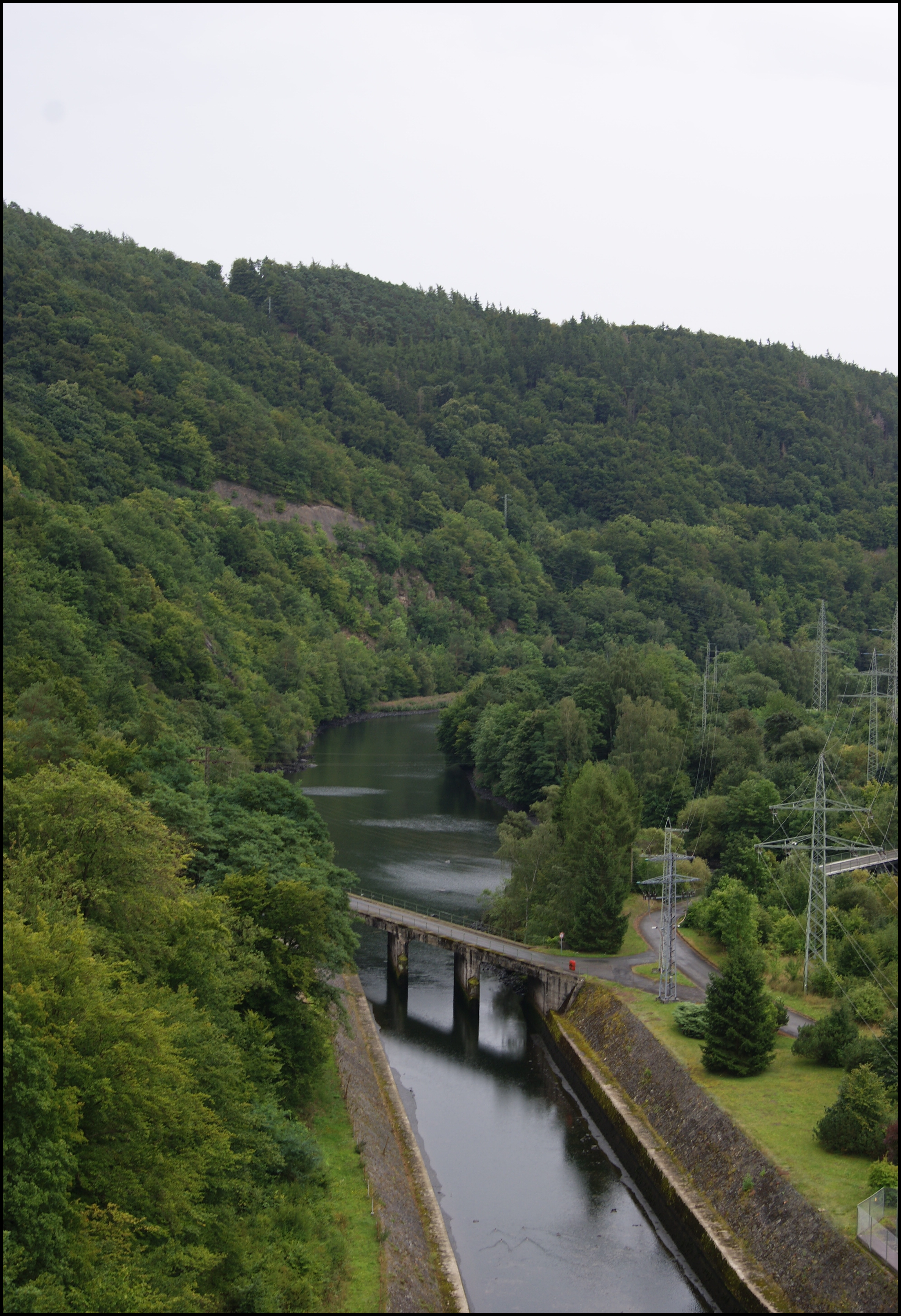 River valley of the Eder (river), seen from the dam wall of lake Edersee, Hesse, Germany.